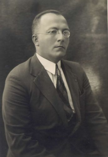 Vladislav Fabjančič (1894-1950)